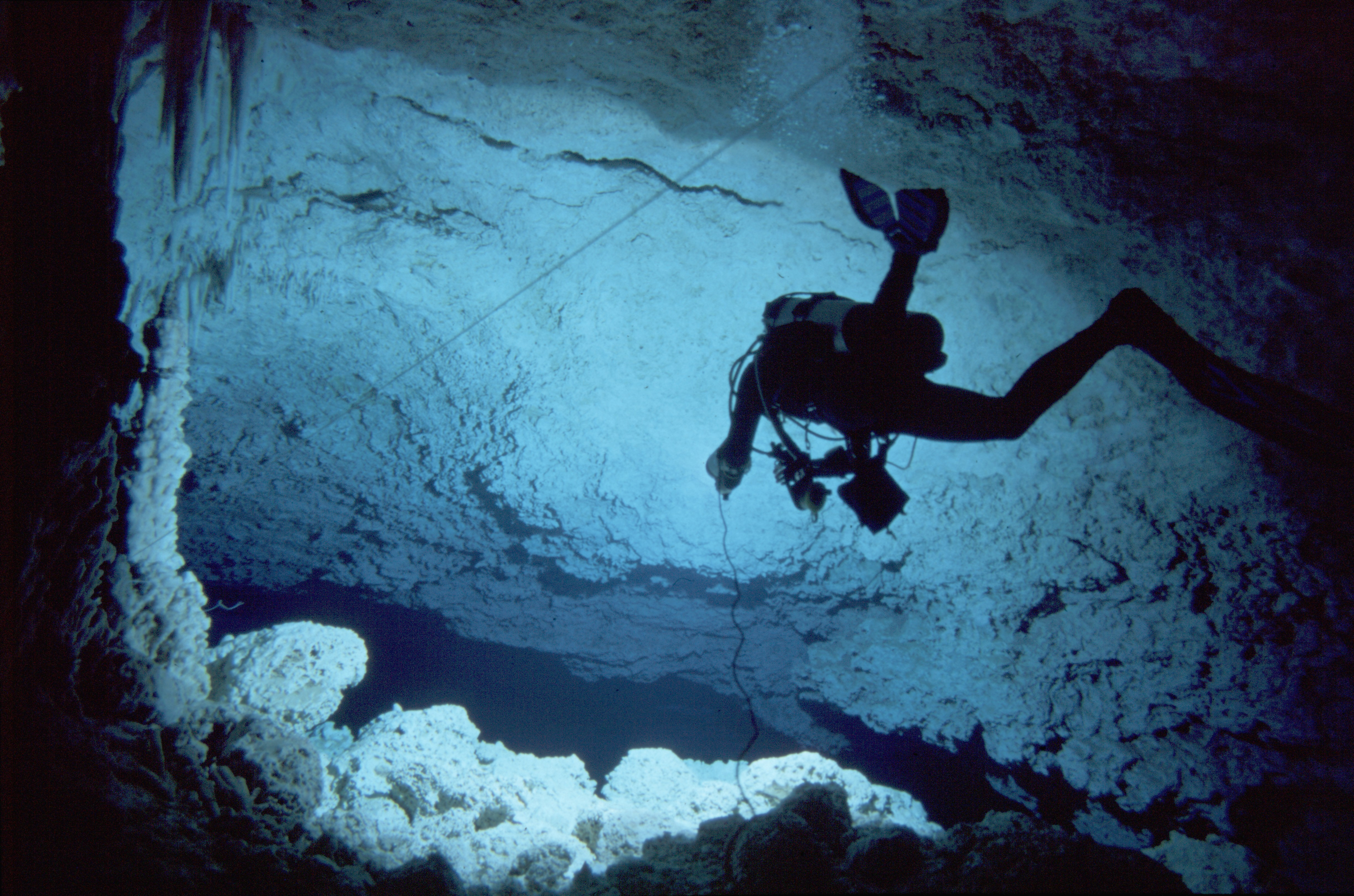 La Sirena Cave, Deep Passage